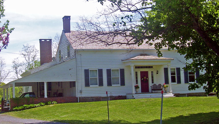 Photographed by Daniel Case 2007-05-12